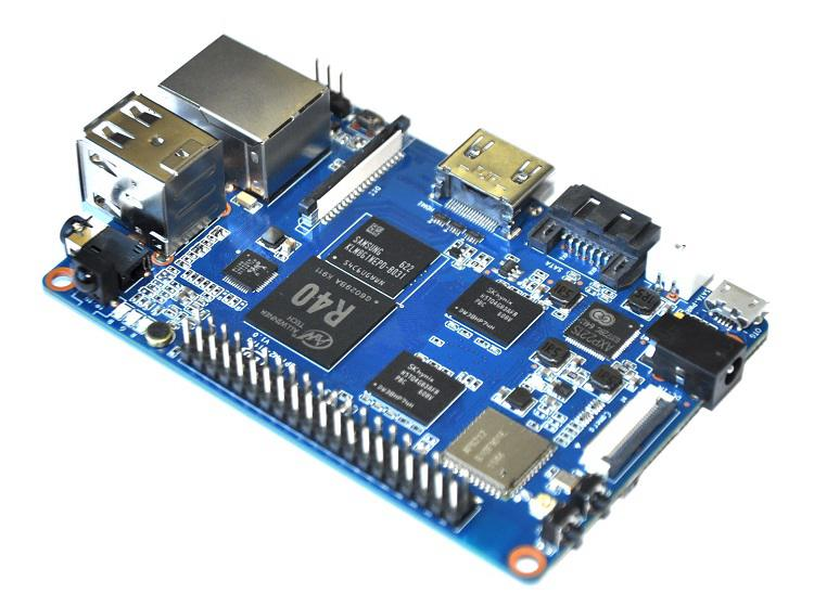 Banana pi BPI-M2 Ultra